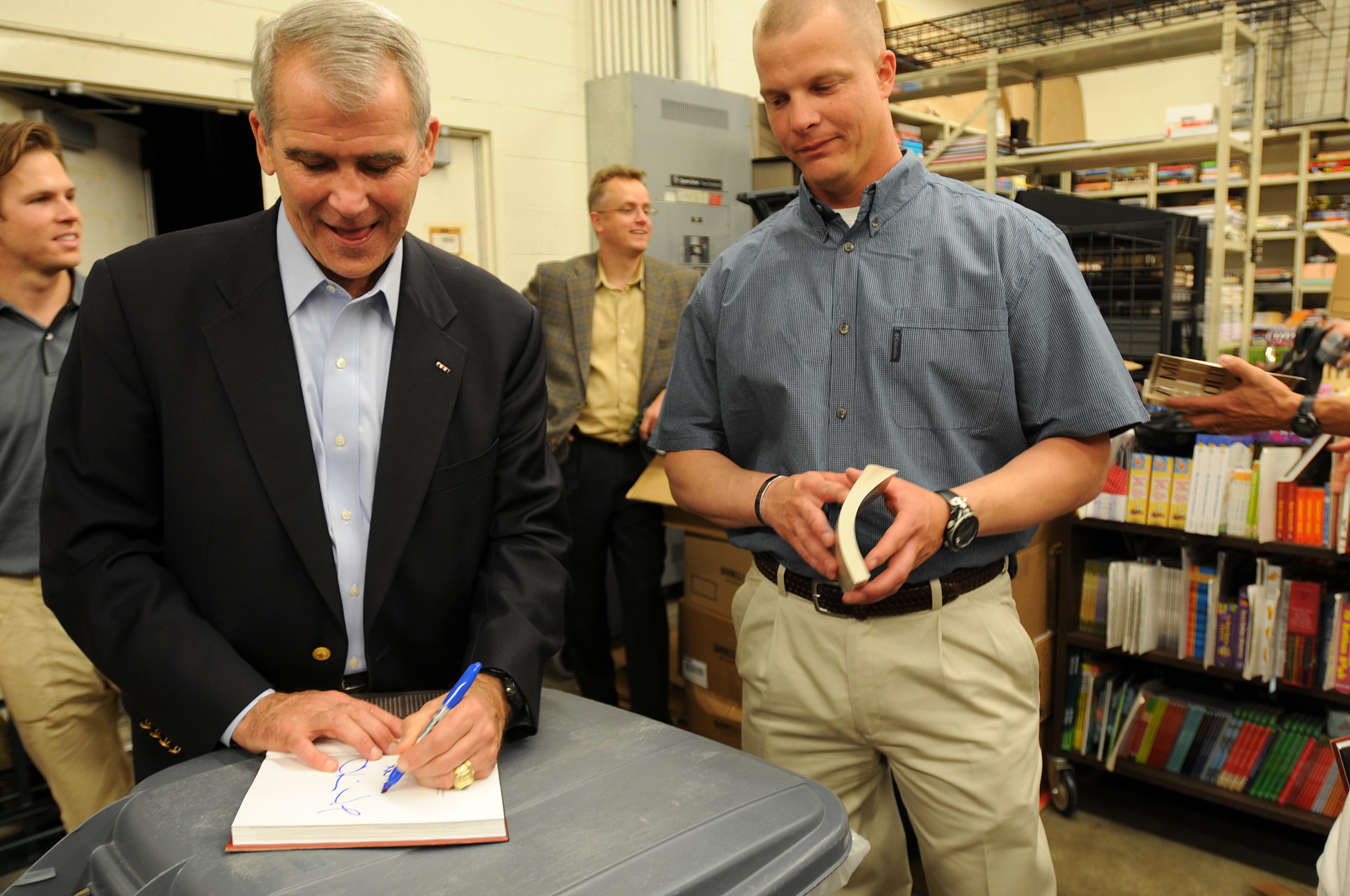 Best-selling author and former Marine Oliver North (left) autographs a copy of his new book "American Heroes," for Sgt. 1st Class John Duggins (right), of Madison, N.C. at a book store in Fayetteville, N.C., May 6. A photograph of Duggins, a platoon sergeant with Battery B, 2nd Battalion, 319th Airborne Field Artillery Regiment, 2nd Brigade Combat Team, 82nd Airborne Division, appears on the book's cover.